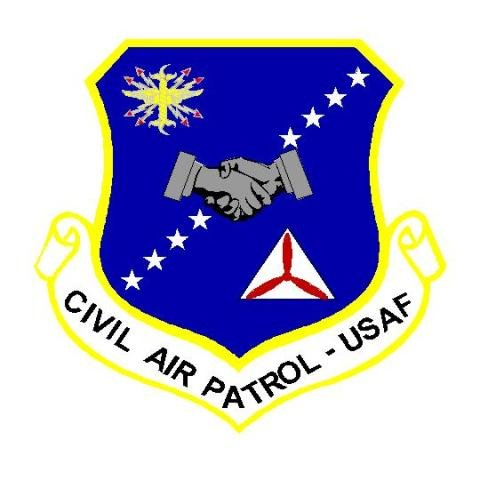 Civil Air Patrol